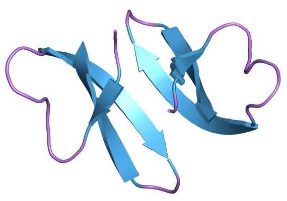 Cartoon representation of the molecular structure of protein registered with 1dfn code.